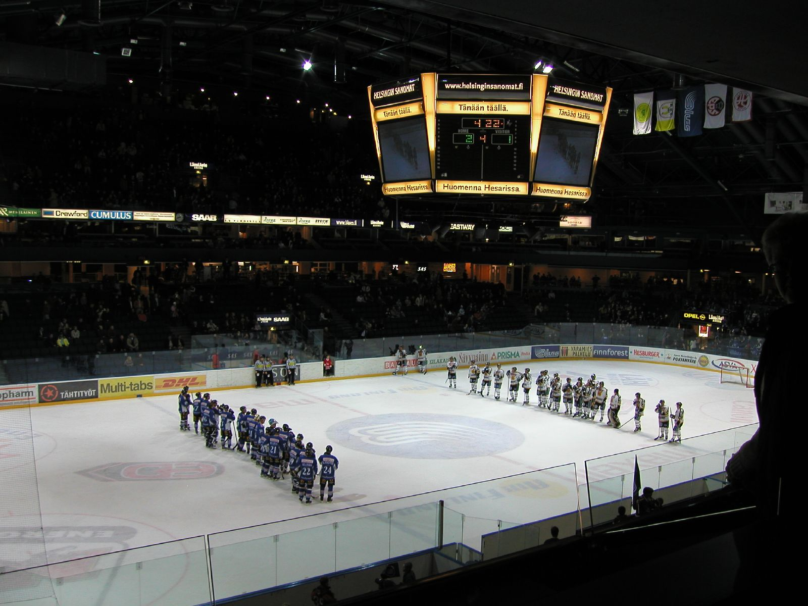 Espoo Blues, Finnish ice hockey team